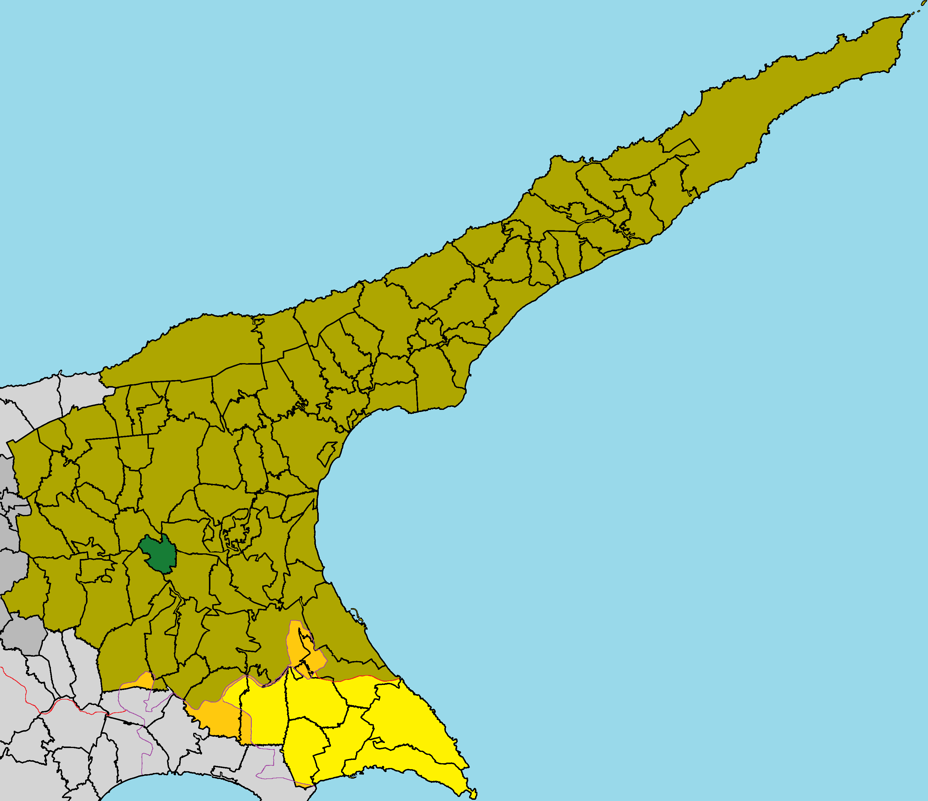 Pyrga Ammochostou in Famagusta District (de jure).